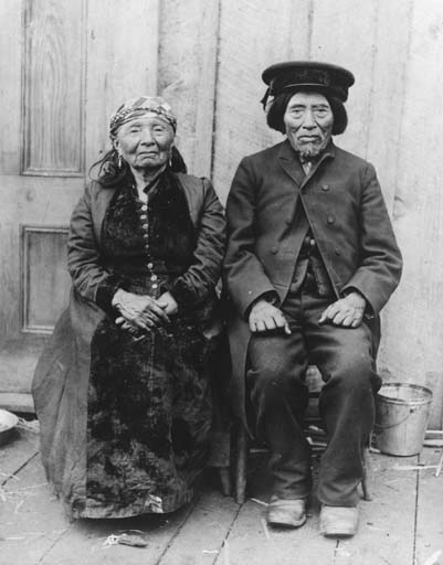 Original title: "Duwamish man and woman known as Old Tom and Madeline, Portage Bay, Seattle, Washington, ca. 1904" Seated on chairs before their house; she wearing Western dress and bandana on her head, he in suit with flat-top cap. Physical description: [not provided, looks like print from negative]